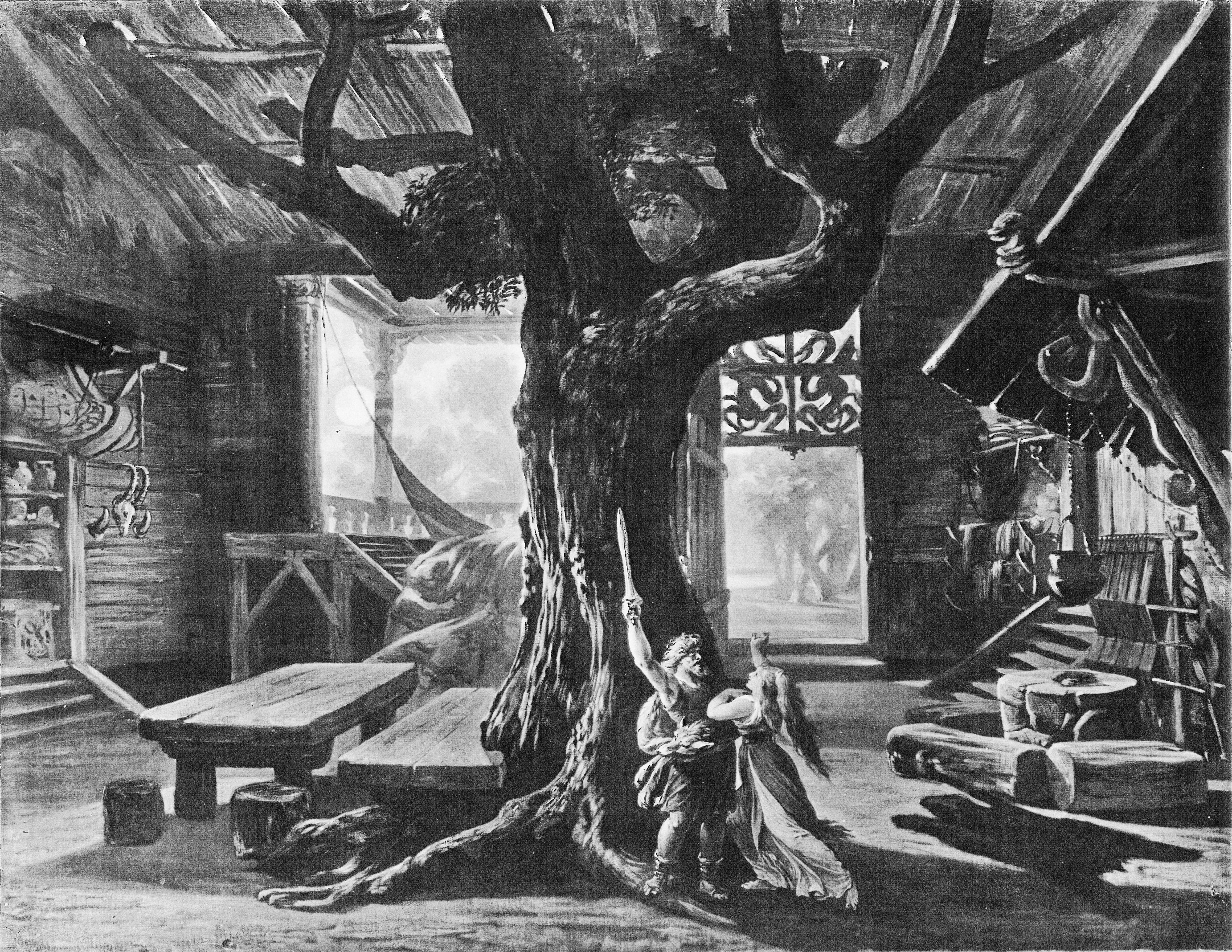 Hunding-Saal: This is a monochrome photograph taken of Hoffman's 14 set designs (number 4) for Wagner's Der Ring des Nibelungen opera in 1876. Hoffman authorized Angerer to publish and sell copies of the photographs.[1]